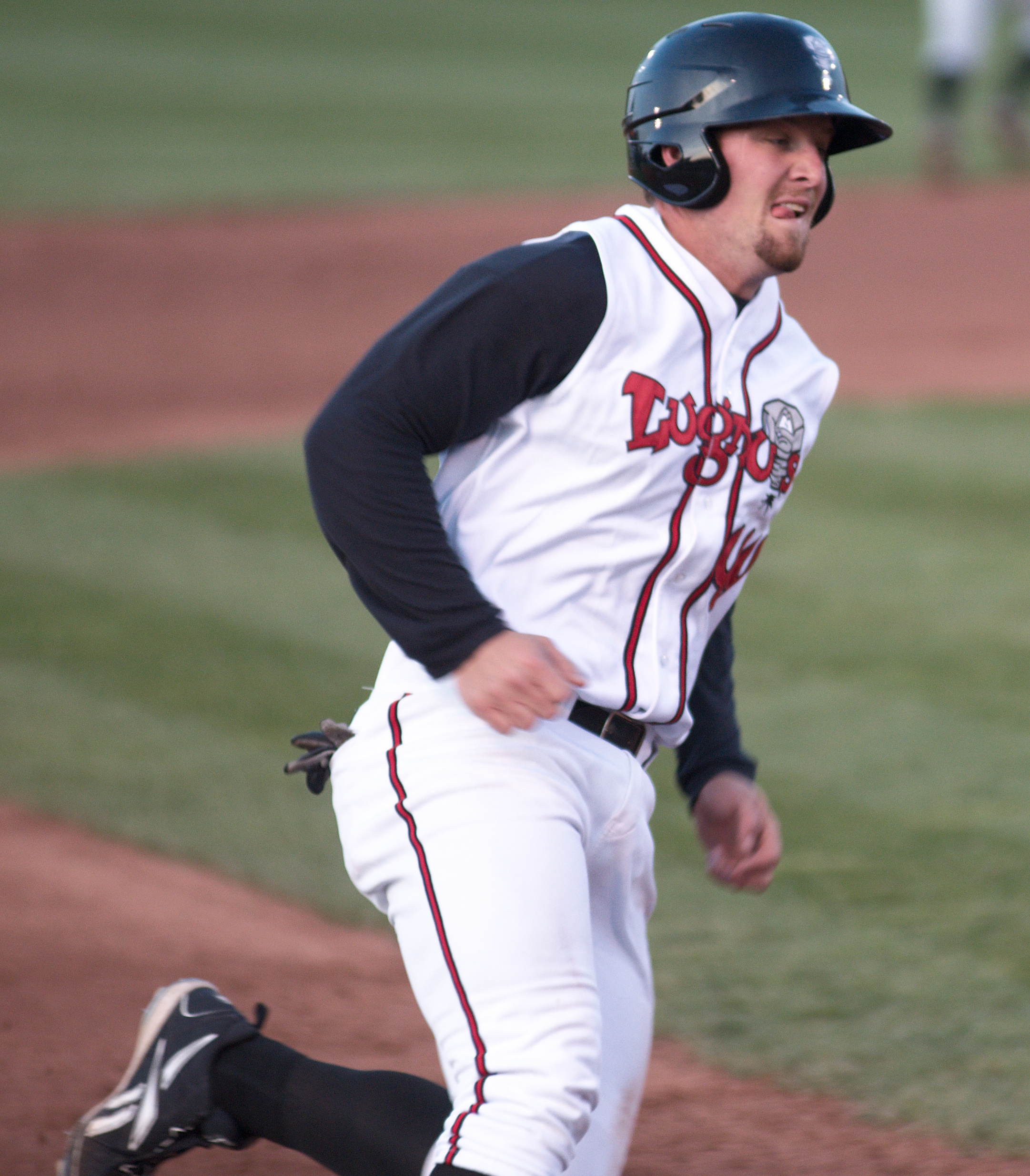 Brad Glenn of the Lansing Lugnuts rounds third during a 2010 game in Lansing, Michigan.